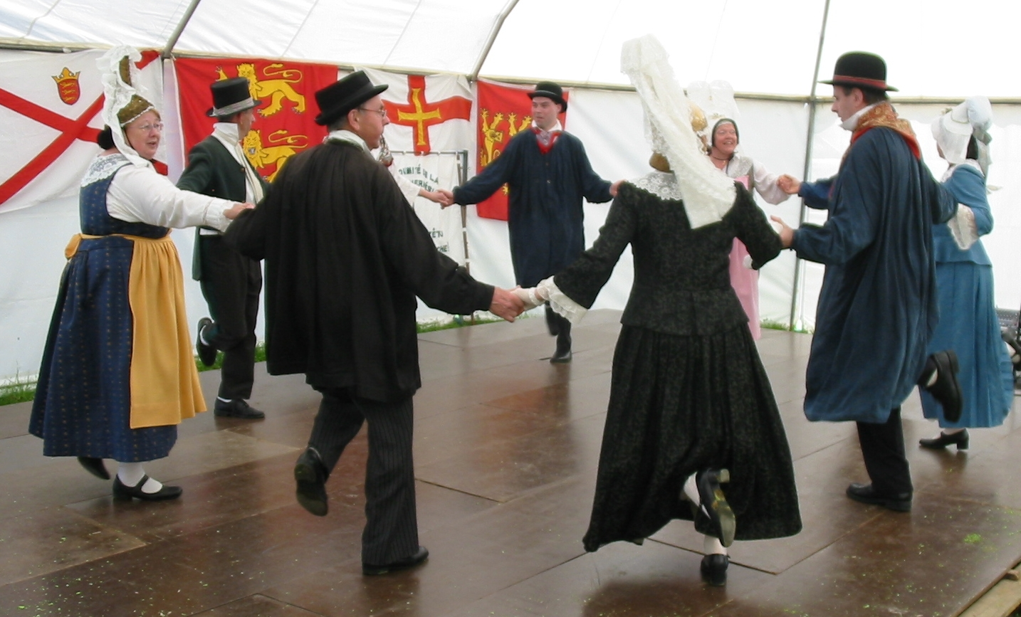 Fête des Rouaisouns, Jersey 2008